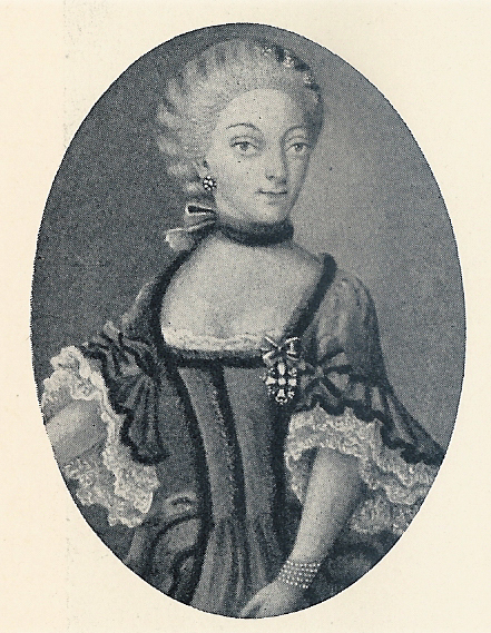 Princess Louise of Denmark-Norway. Later Princess Louise of Hesse-Kassel. 1750-1831.